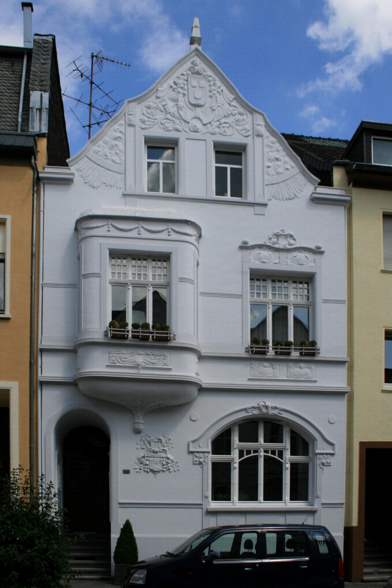 Cultural heritage monument No. L 009 in Mönchengladbach